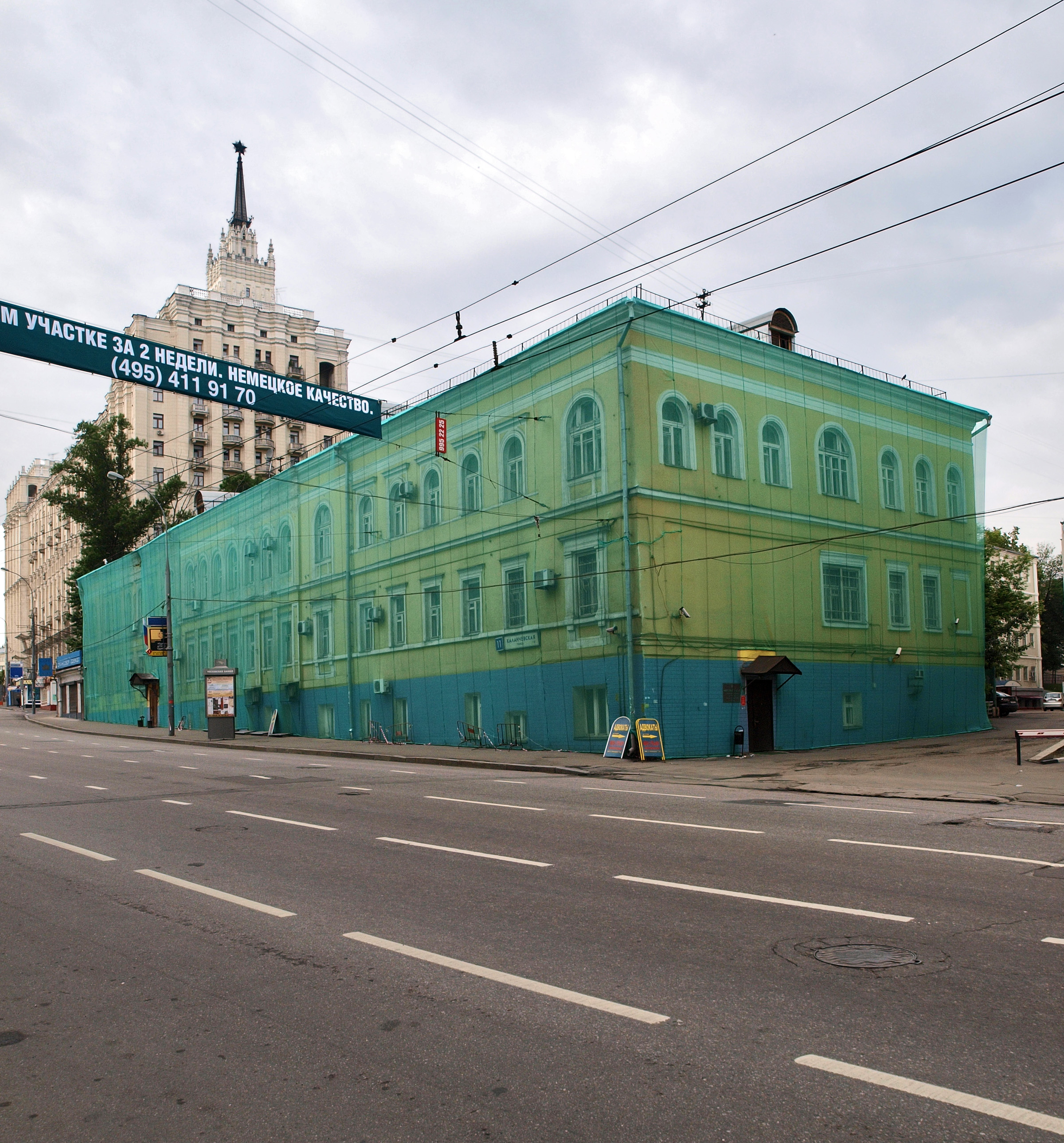 The one and only Basmanny Court, Moscow.